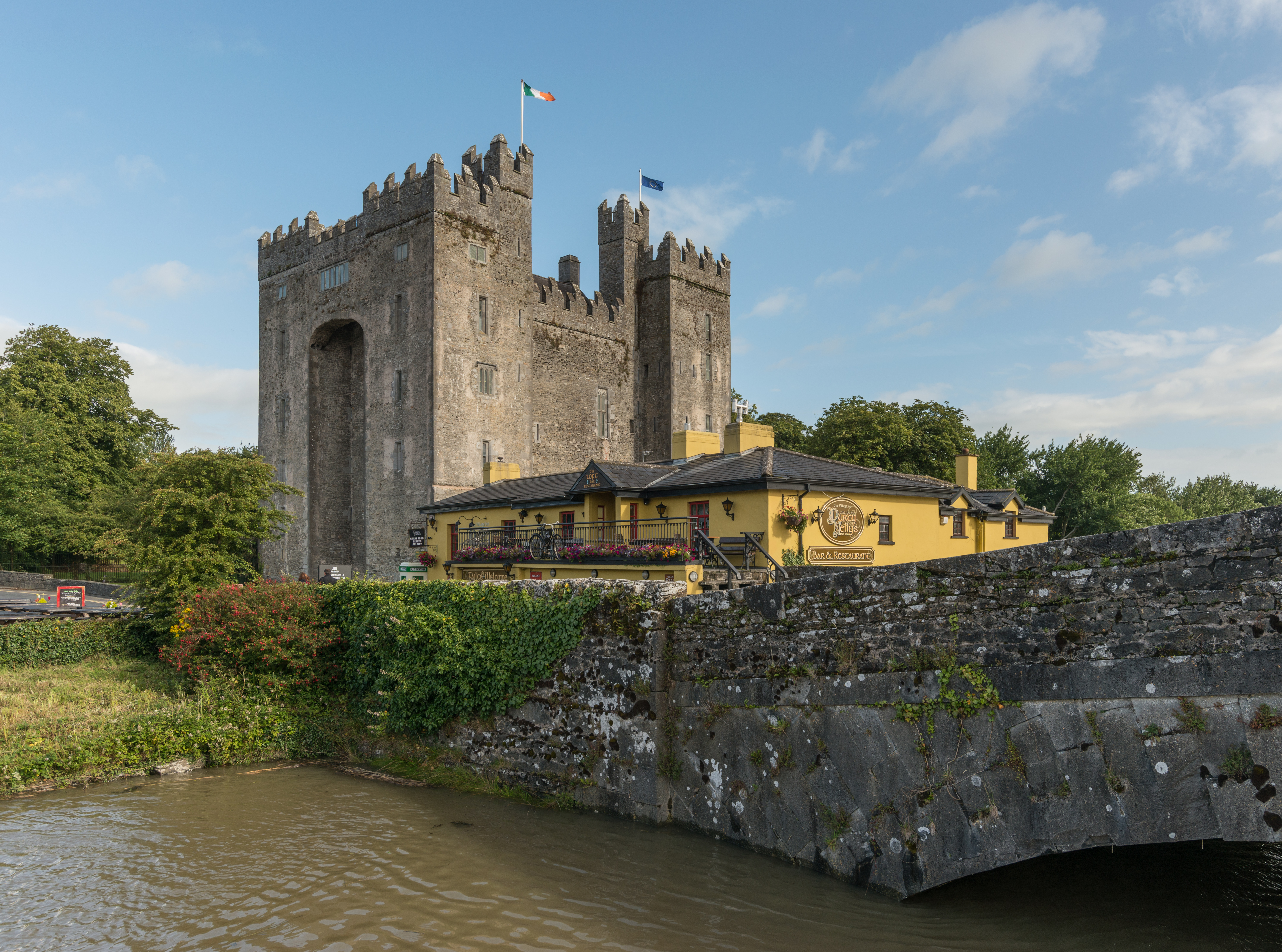 A southeast view of Bunratty Castle and the nearby Durty Nelly's pub